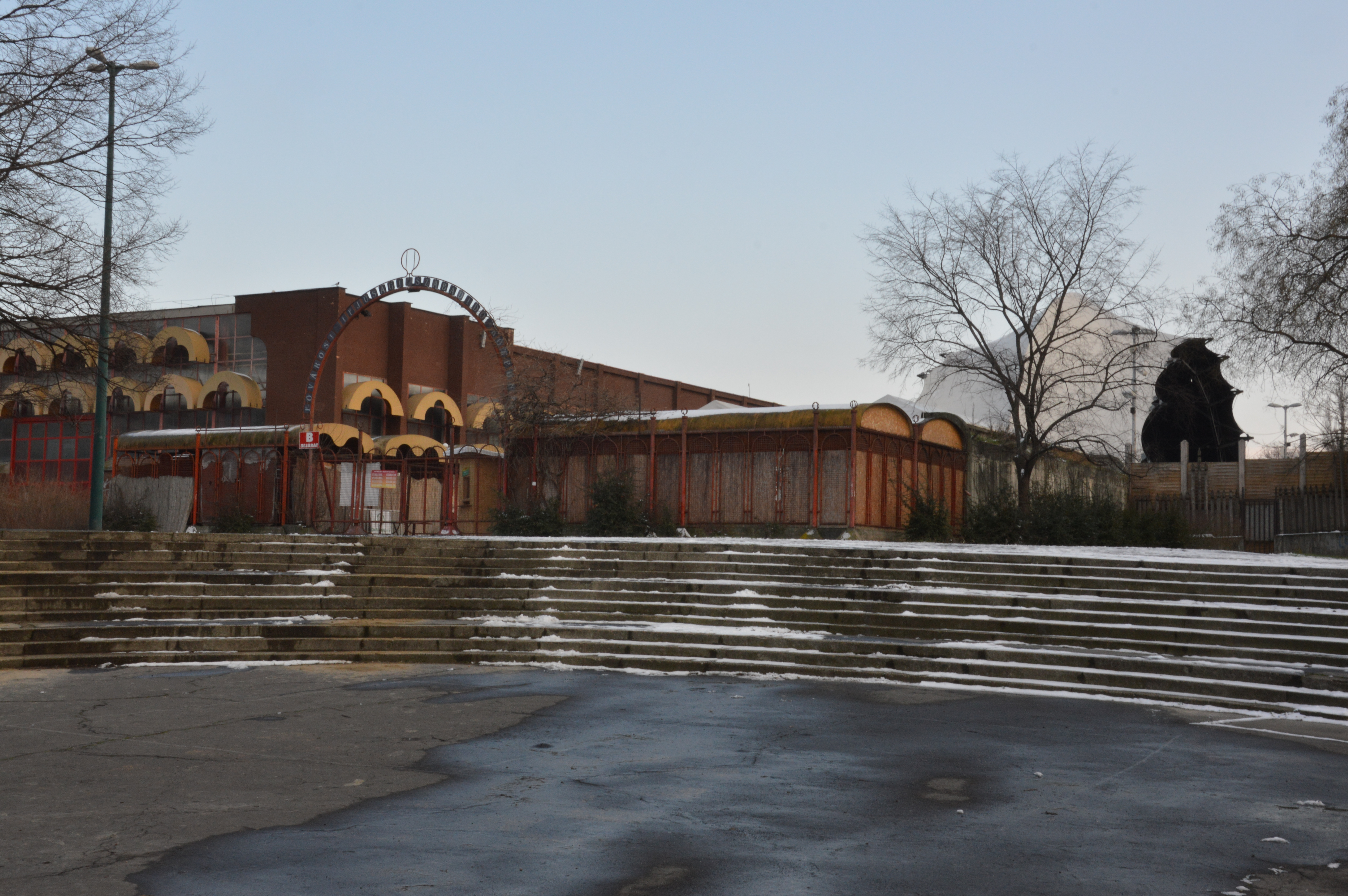 Rear of Petőfi Csarnok, with the site of flea market and the outdoor pavilion in view